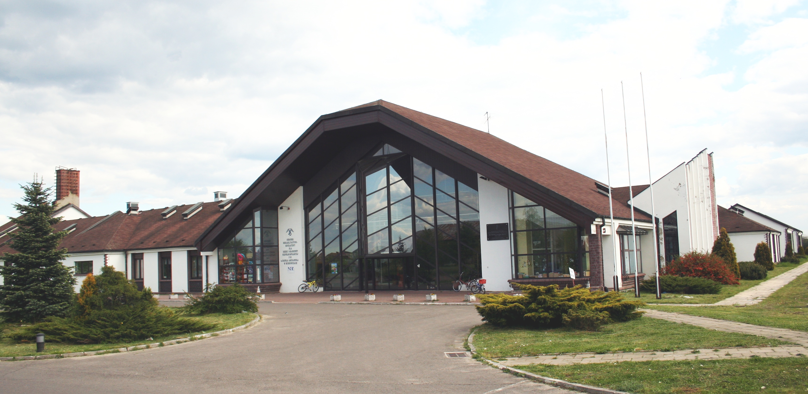 Centrum of physical medicine and rehabilitation in Rusinowice, Poland